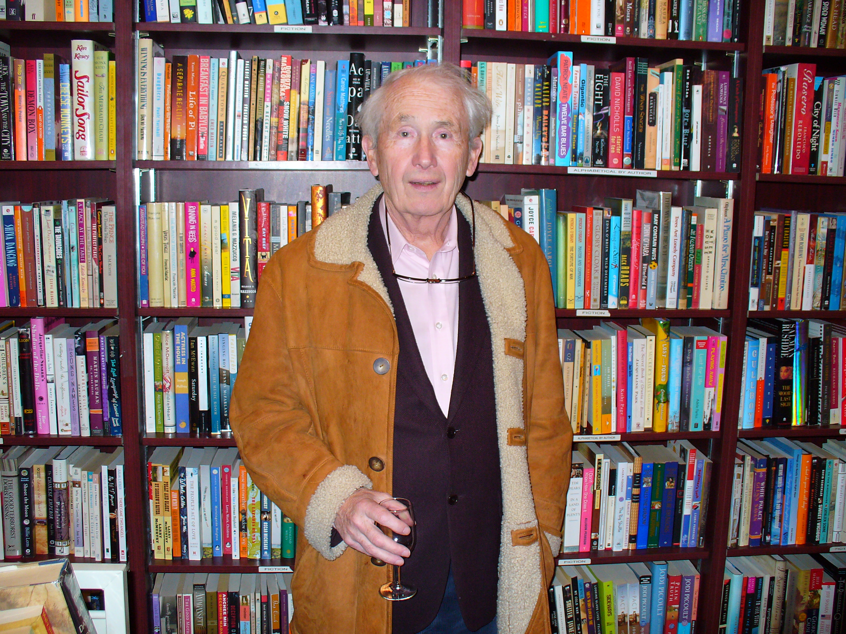 Frank McCourt at New York City's Housing Works bookstore for a tribute to recently-deceased Irish poet Benedict Keily. Photographer's blog post about the death of Frank McCourt and the memory of this photo.